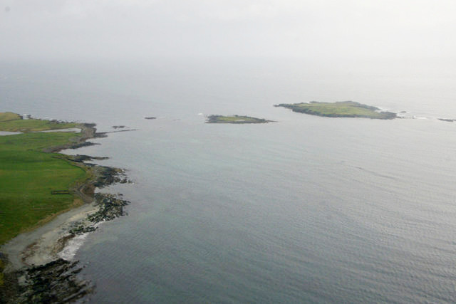 Lady's Holm and Little Holm from the air